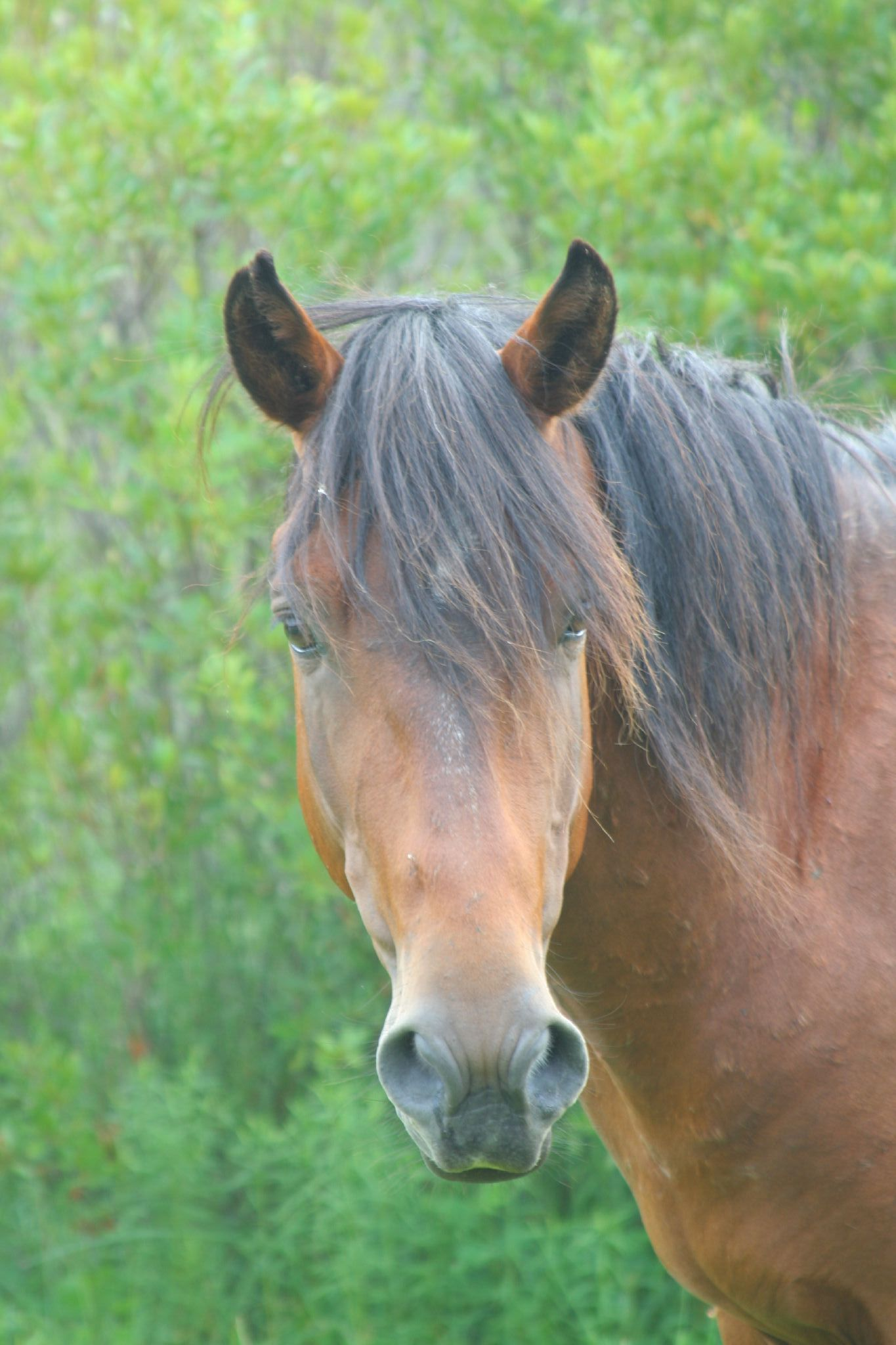 Wild Horse of the Outer Banks